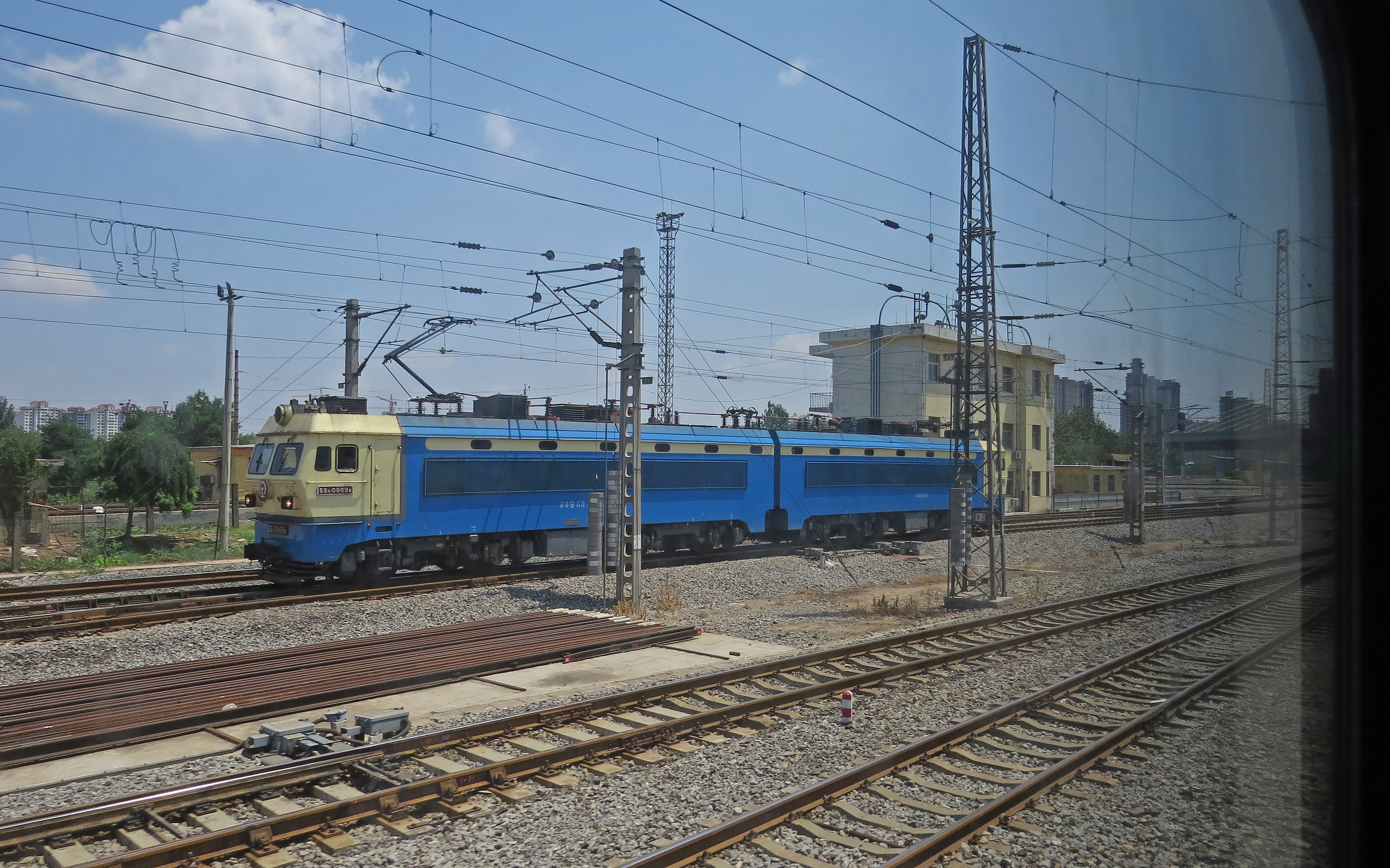 Taken at Western Hengshui.